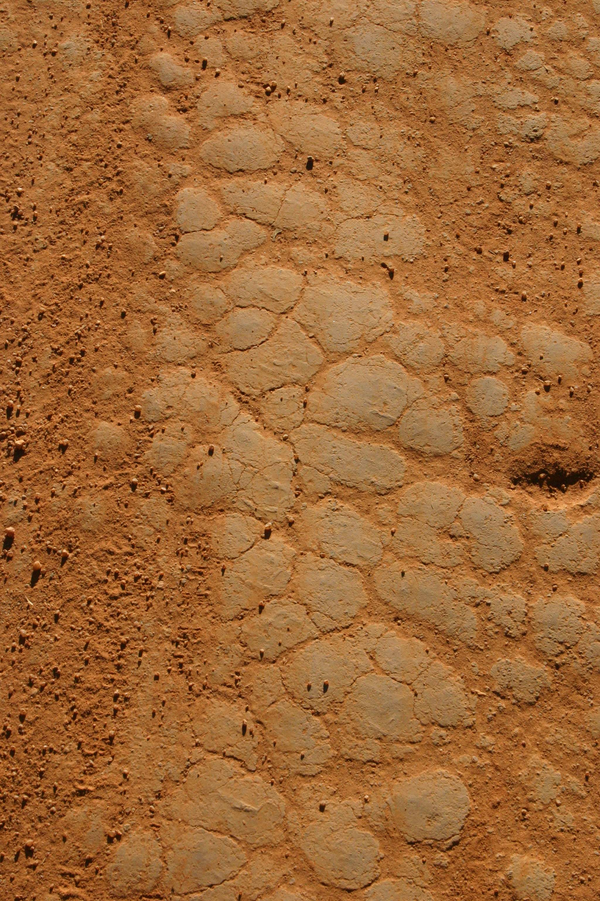 Clay cells with crack pattern on road near Random Harvest Nursery, Honeydew, Gauteng